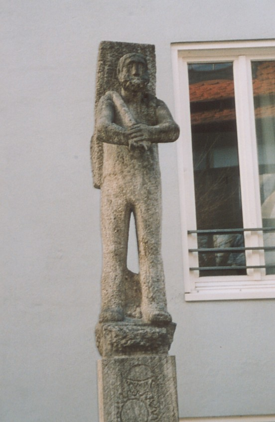 Gôgen Monument in Tübingen (Salzstadelgasse)